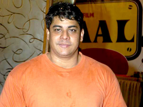 Comedian Cyrus Broacha at a press conference for Golmaal 3